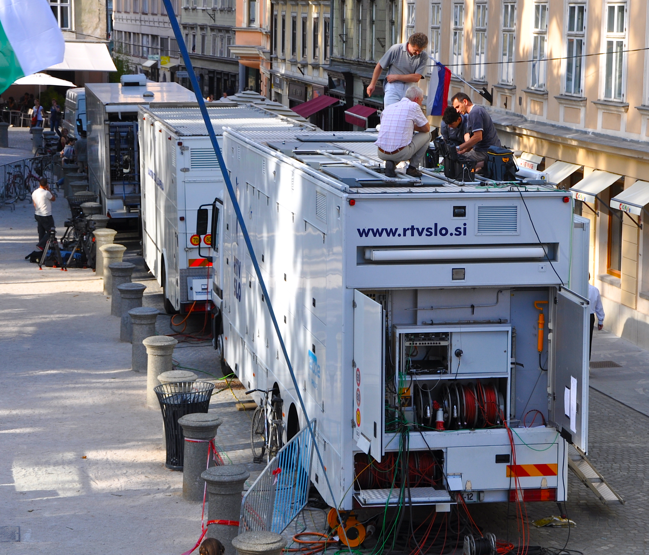 RTV Slovenia broadcasting vehicles (2011)